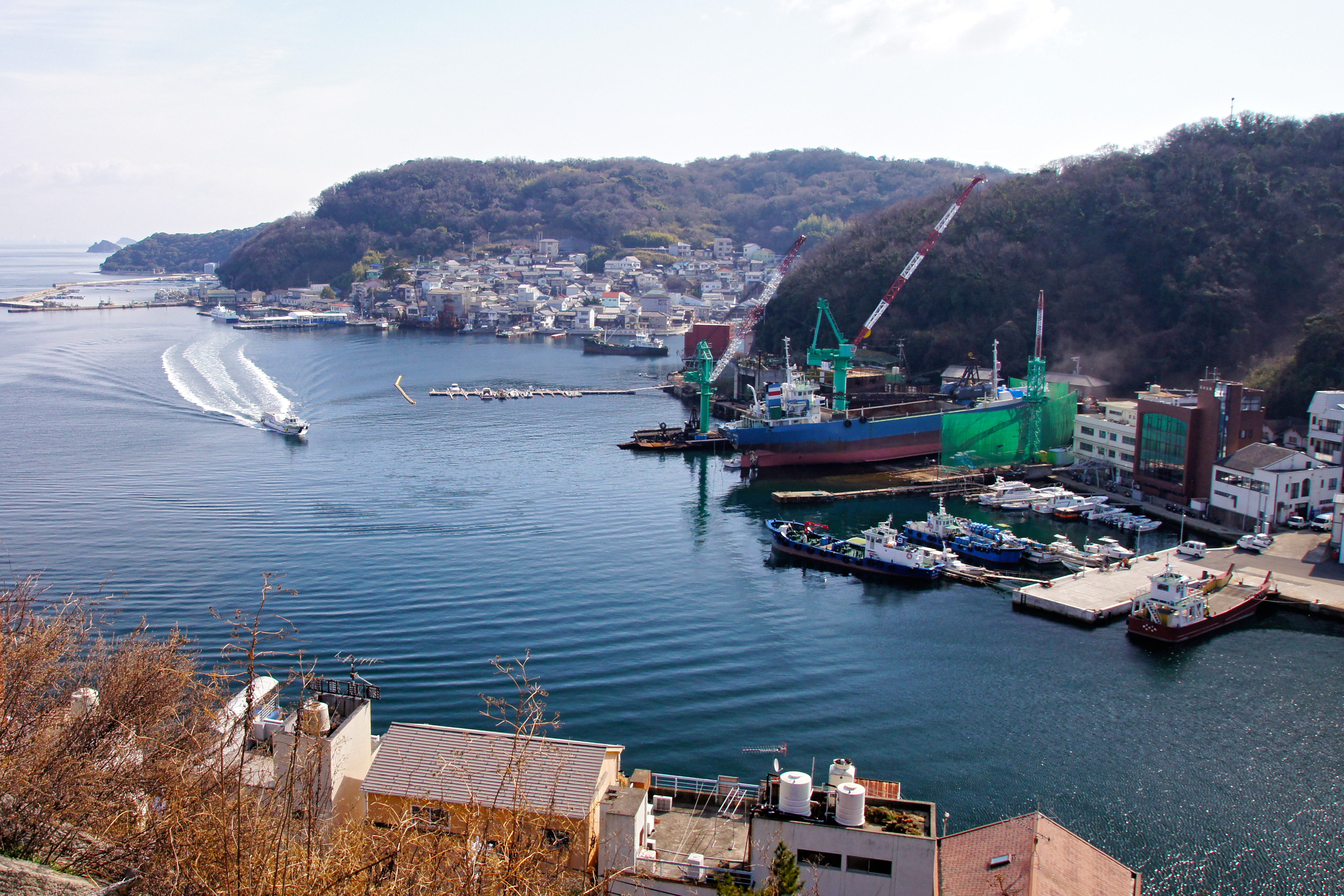 Maura-kokaku is one of the Ten Views of Ieshima Islands in Ieshima Island, Himeji, Hyogo prefecture, Japan.